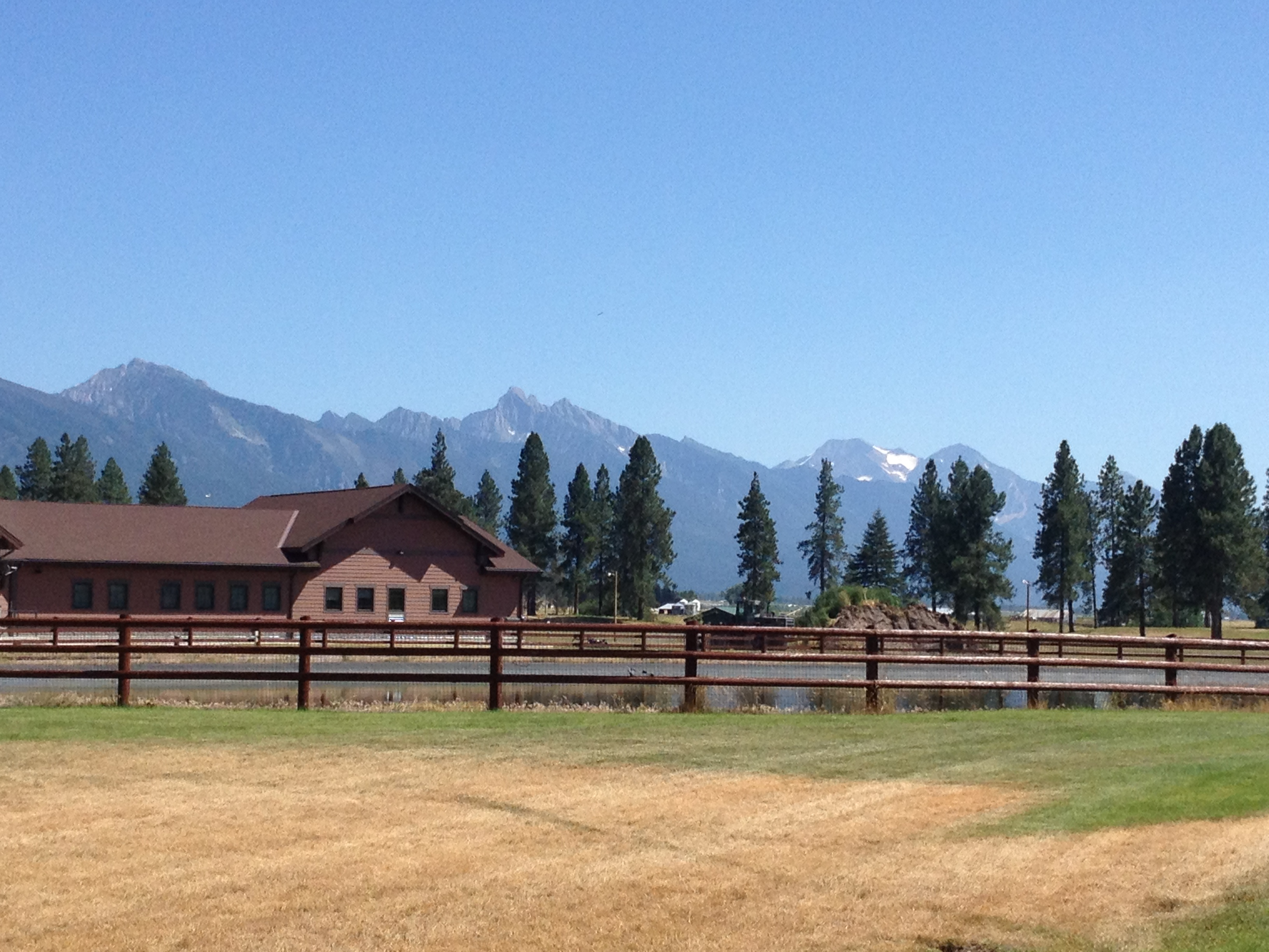 Building at Salish Kootenai College, Pablo, Montana, and Mission Mountains. Photographed July 23, 2013.